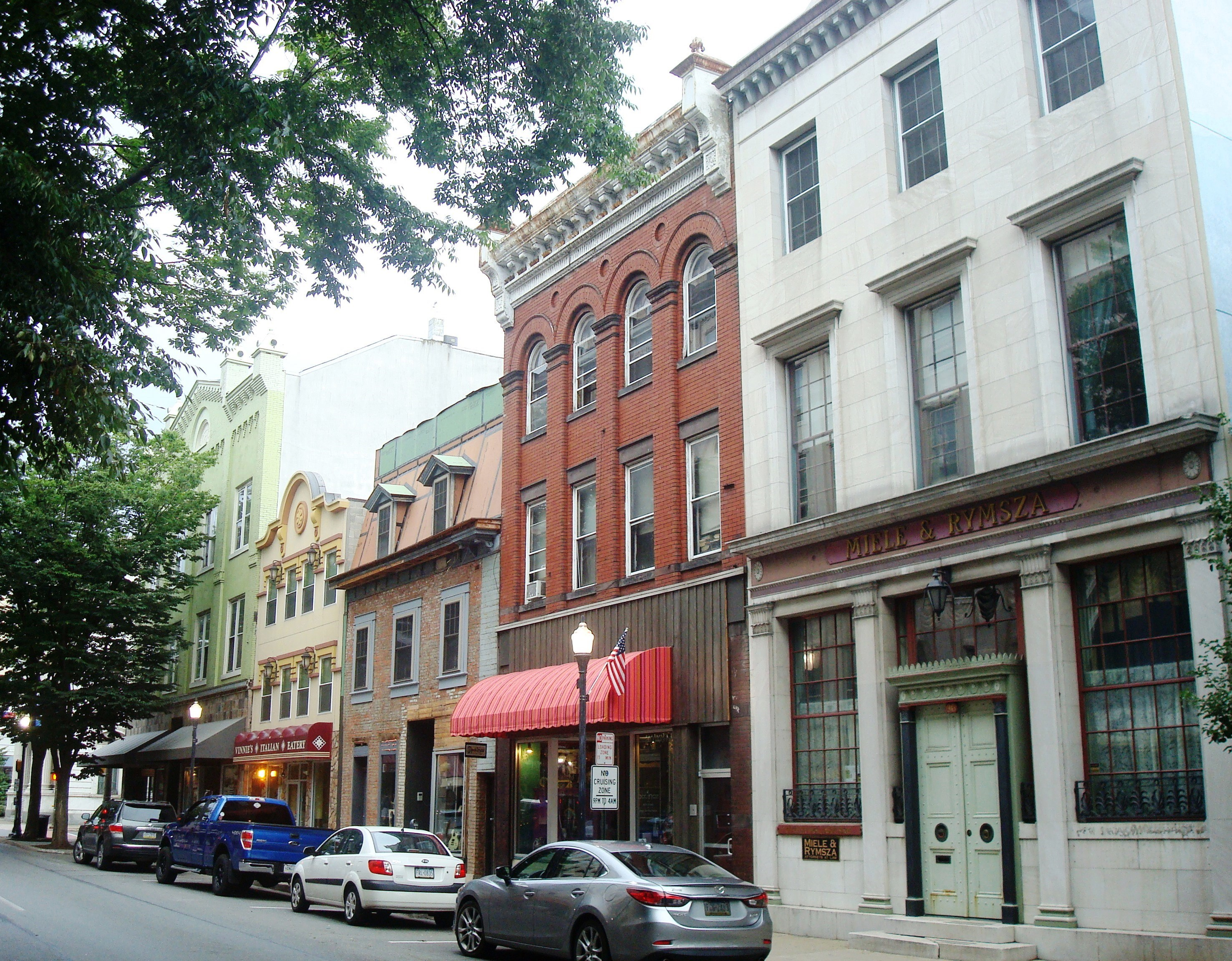 A streetscape pf West 4th Street between Court and Market Streets in Williamsport, Pennsylvania, looking west.